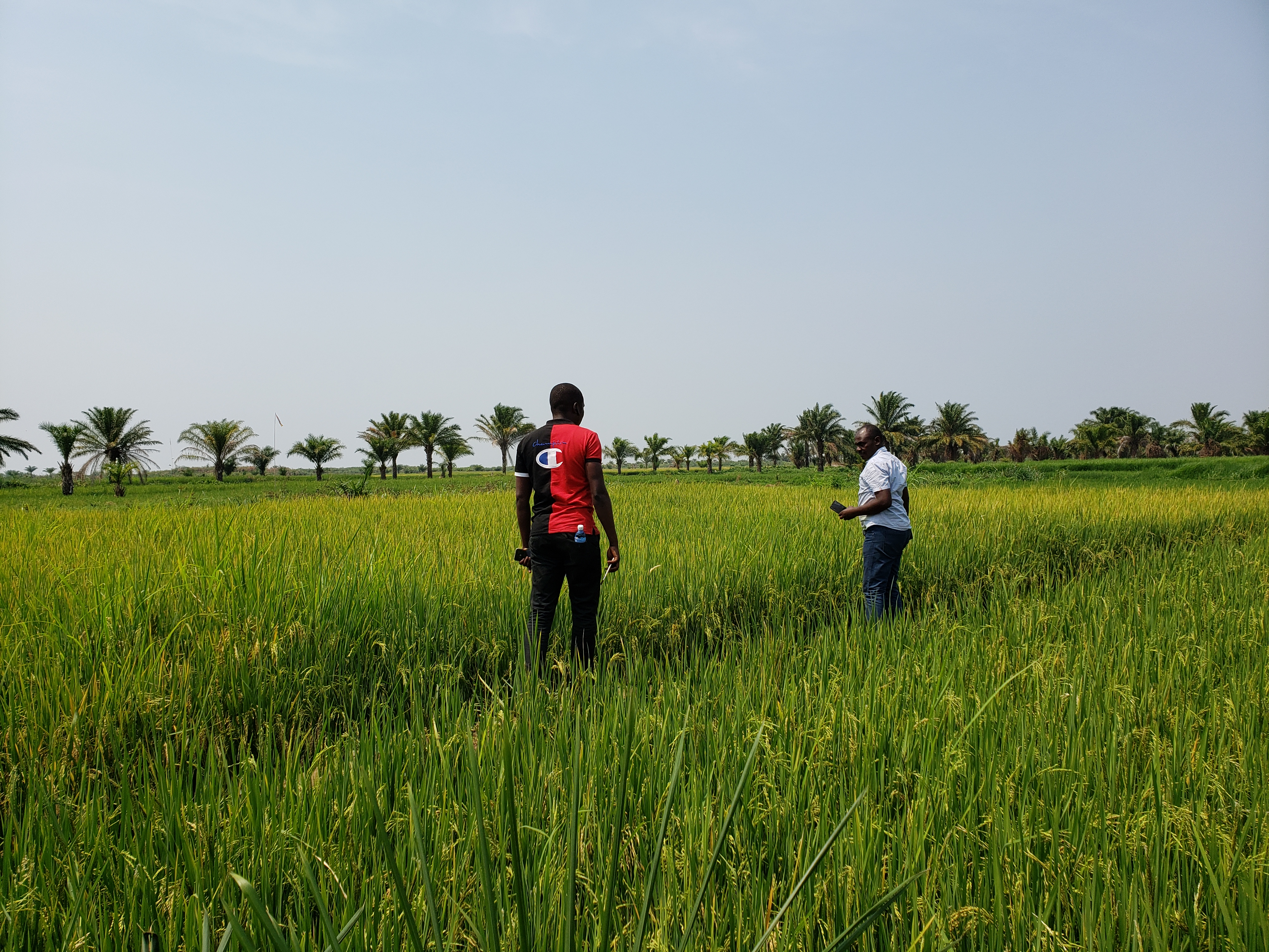 This is an image with the theme "Africa on the Move or Transport" from: Democratic Republic of the Congo